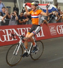 2013 uci road world championships winner junior mens rood race